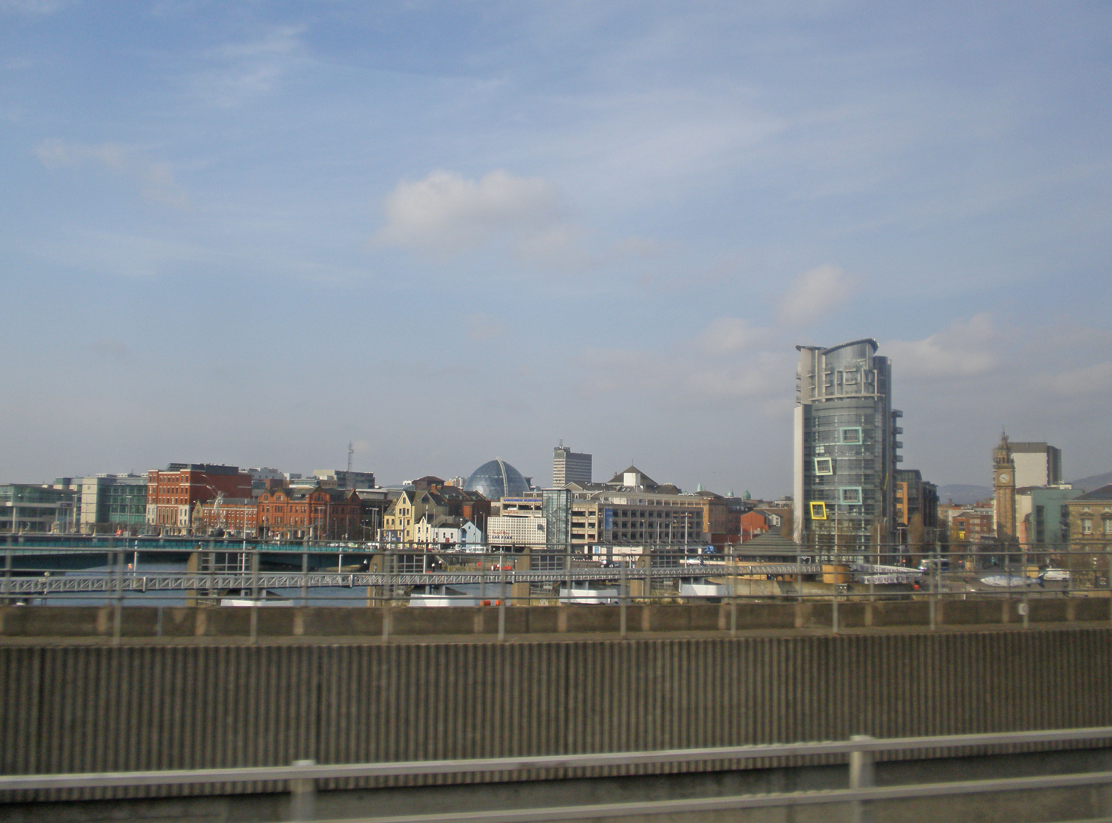 A view of Belfast.